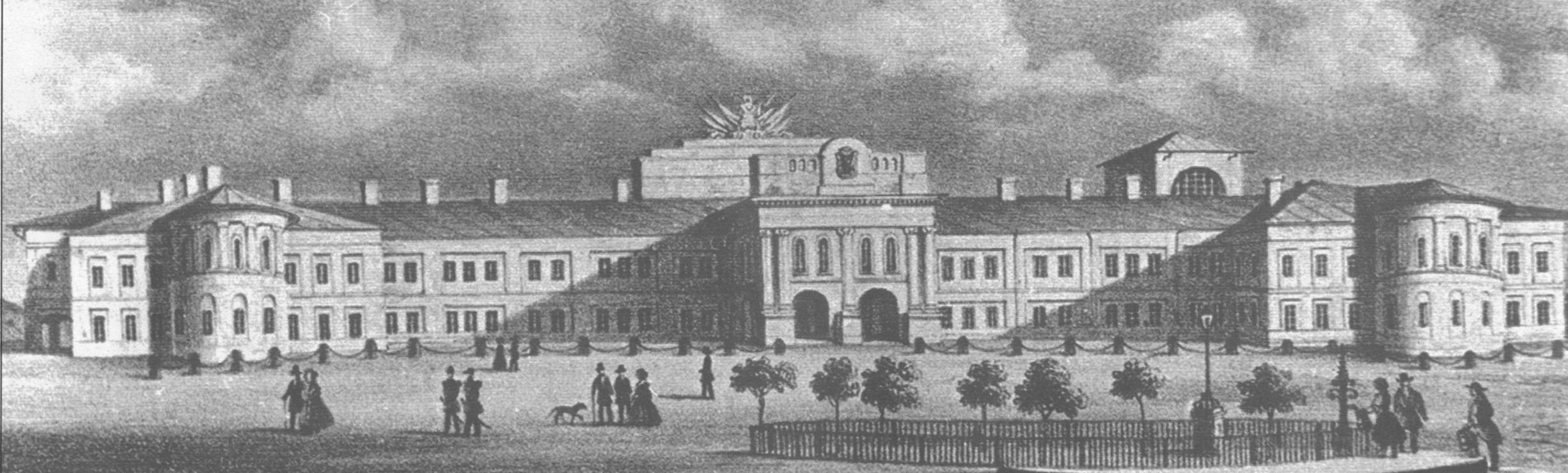 Iași (Jassy), The Princely Court of MoldaviaRomână: Iași, Palatul Ocârmuirii (Curtea Domnească)